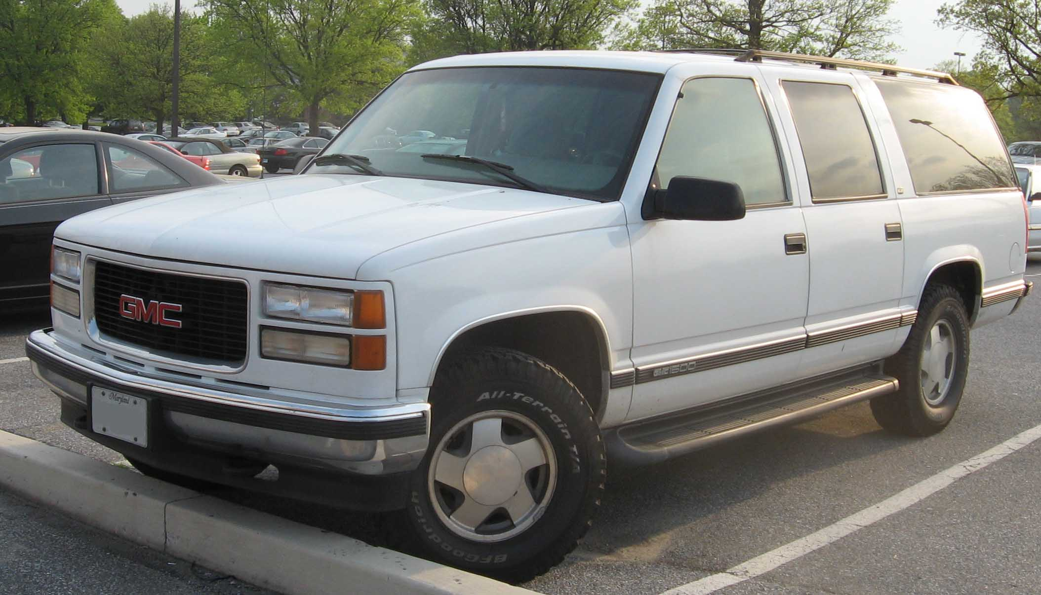 1997-1999 GMC Suburban photographed in College Park, Maryland, USA.